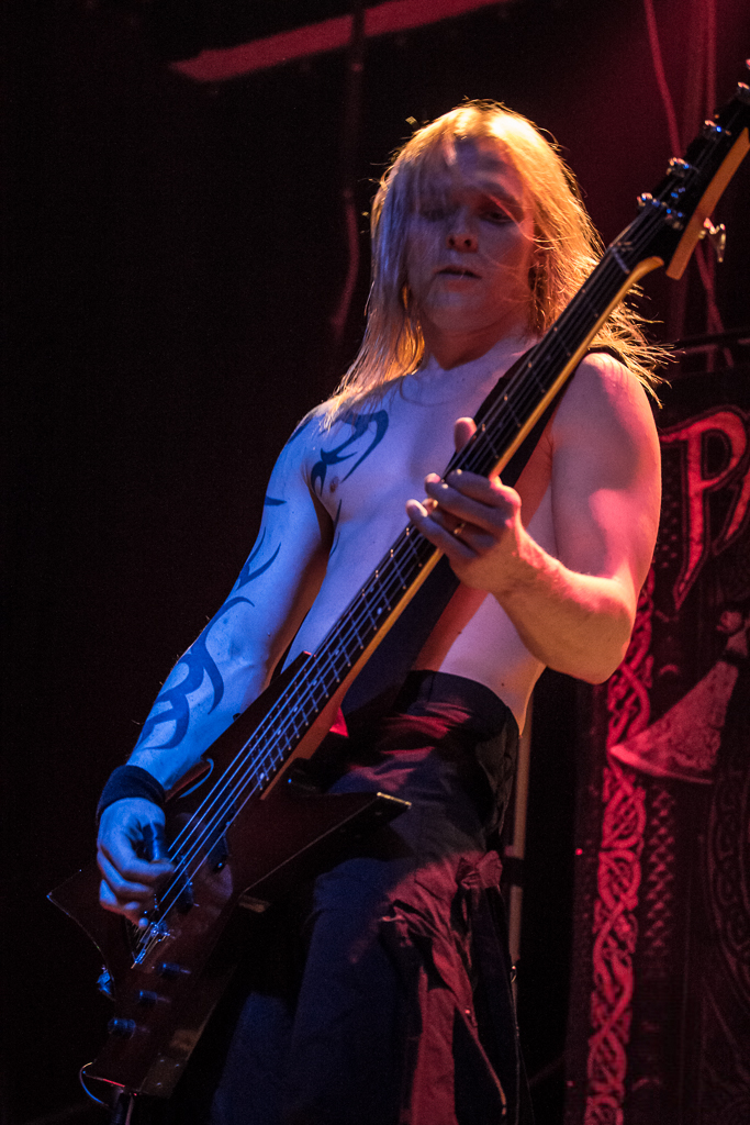 Timo Lehtinen, bassist for Kalmah, performing at Paganfest 2013 in Würzburg, Germany.